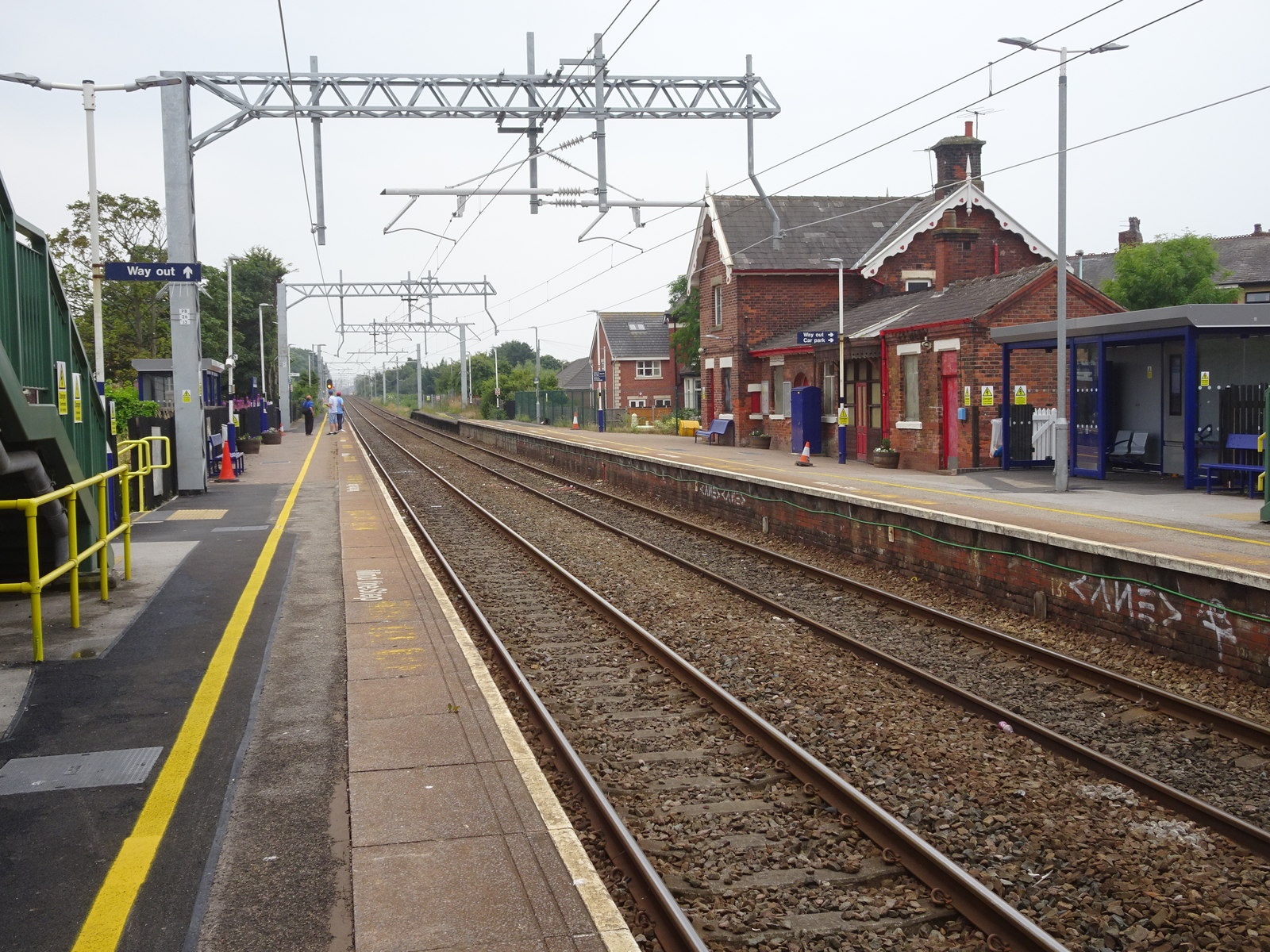 Layton railway station, Lancashire Opened in 1846 (as Bispham) by the Preston & Wyre Joint Railway on its line from Preston to Blackpool Talbot Road (now Blackpool North), it was renamed Layton in 1932. View south west towards Blackpool, shortly after the line was electrified, and the footbridge and waiting shelter replaced.